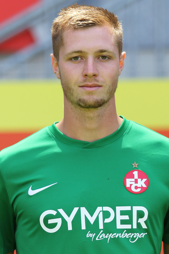 Lennart Grill (Nr. 1)